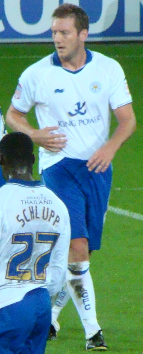 21/09/11 Cardiff V Leicester, Football League Cup, Cardiff City Stadium, Cardiff, Wales [Image cropped from original]